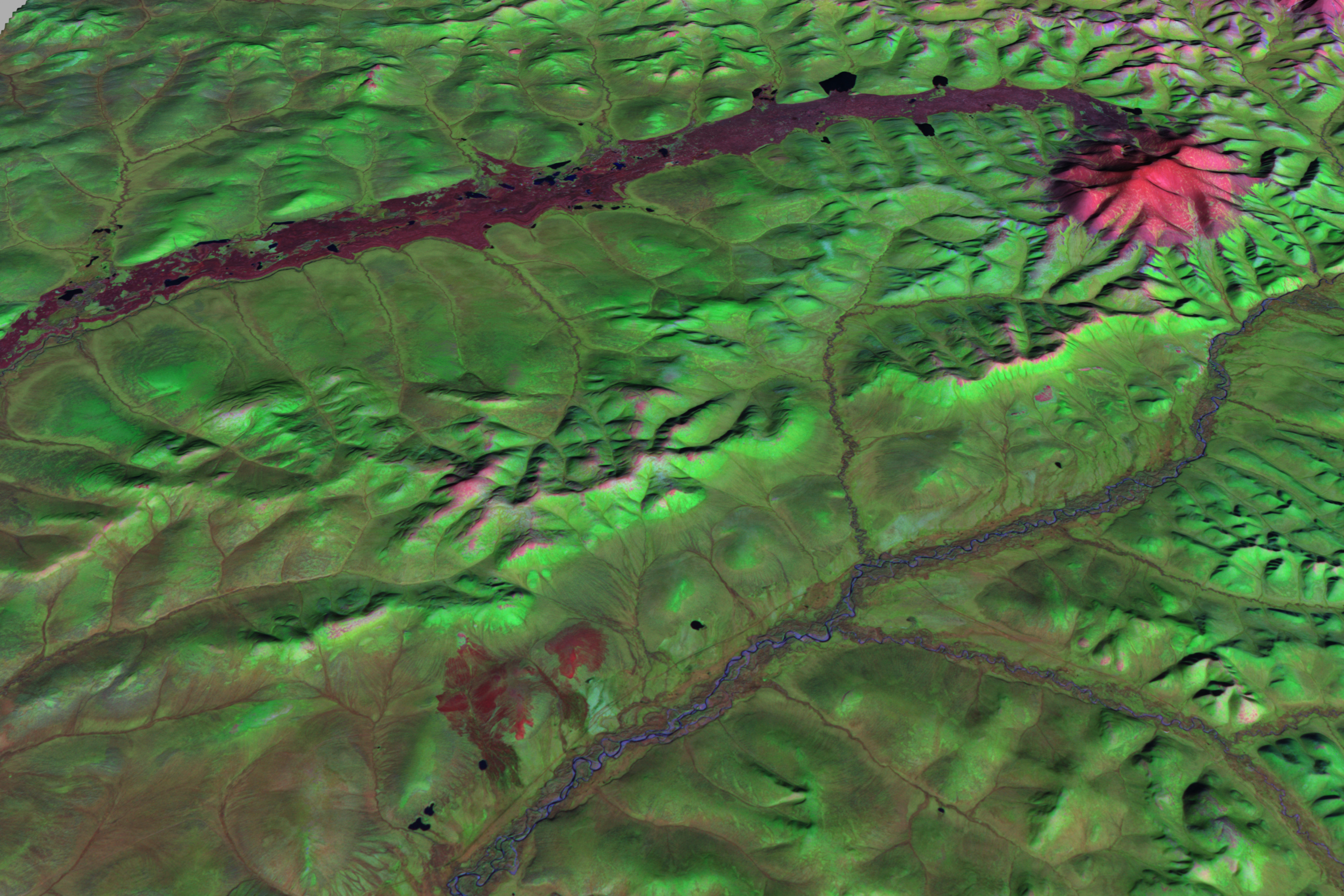 View of Anyuyskiy. The ASTER satellite can map elevation while collecting imagery, so in this false-colour image, the image data has been draped over elevation data to make this 3-D visualization. Vegetation appears bright green; bare rocks and ice appear bright red; water appears navy blue. Even in summer, traces of snow cover cling to the highest peaks. The old lahar from Anyuyskiy extends from the north slope, turning westward immediately north of Anyuyskiy and flowing toward the west-south-west. Lakes occur along the margins of the lahar, and some small lakes appear on the lahar’s surface, but little vegetation has encroached on the ancient river of rock.